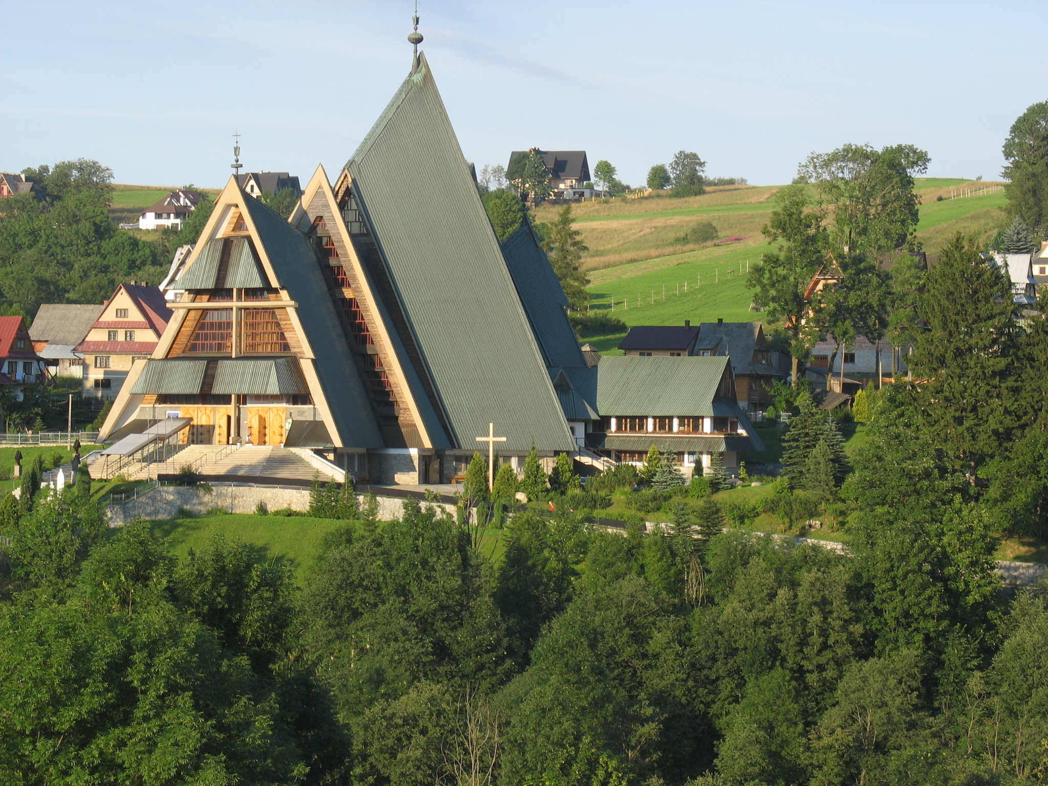 zakopane, church